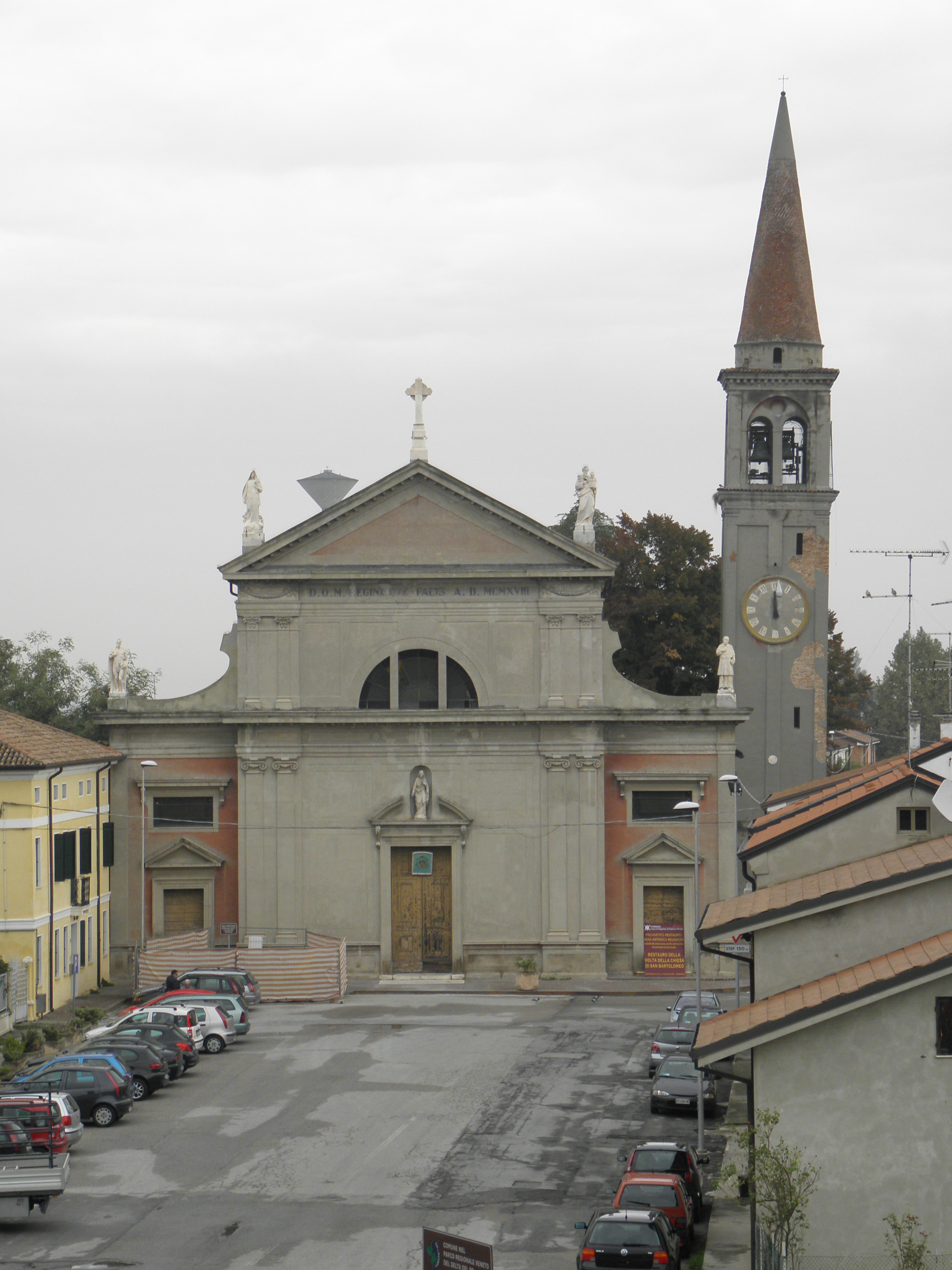 Saint Bartholomew church in Papozze, province of Rovigo.